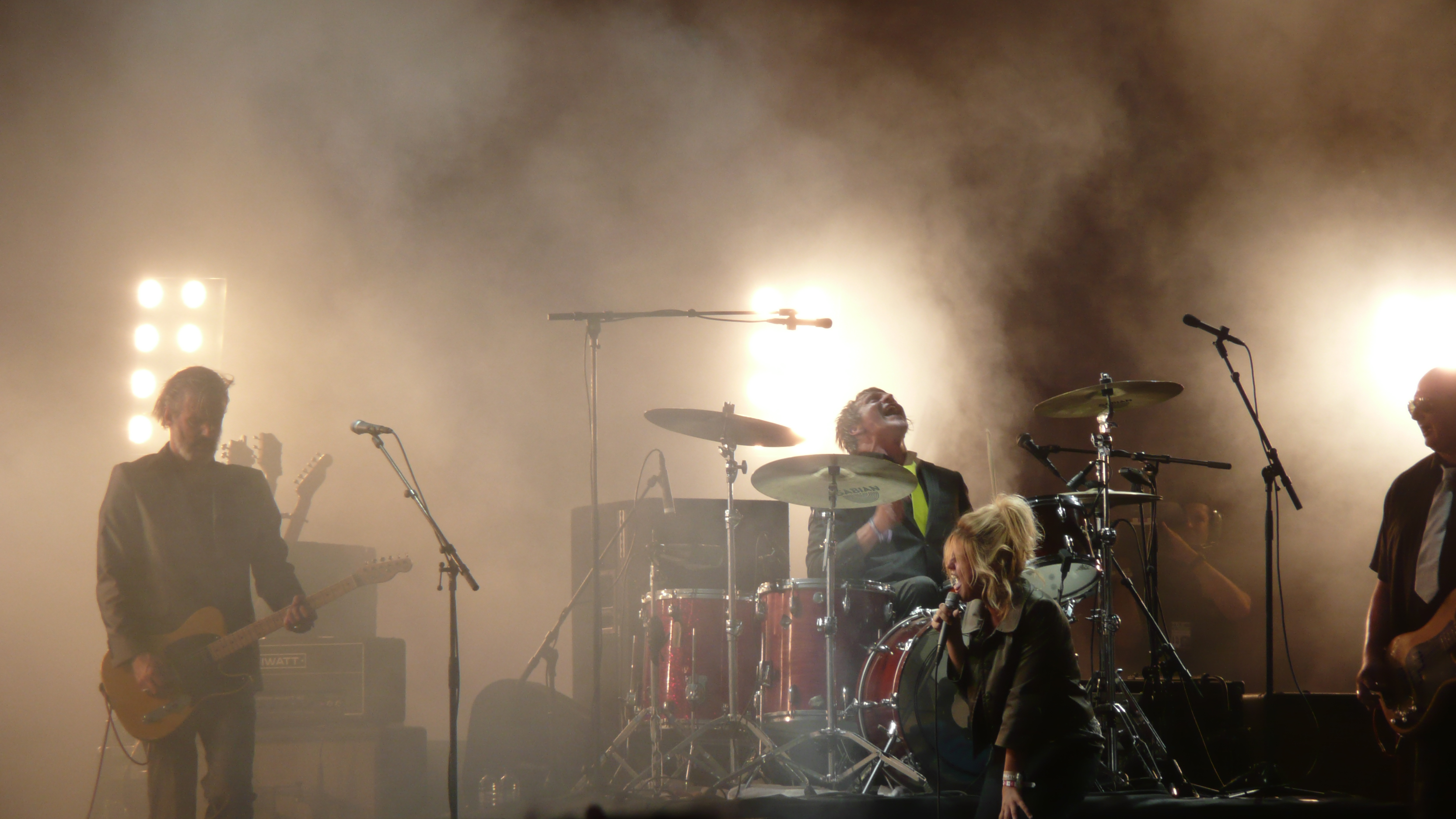 Triggerfinger accompanied by Selah Sue @Lowlands2010